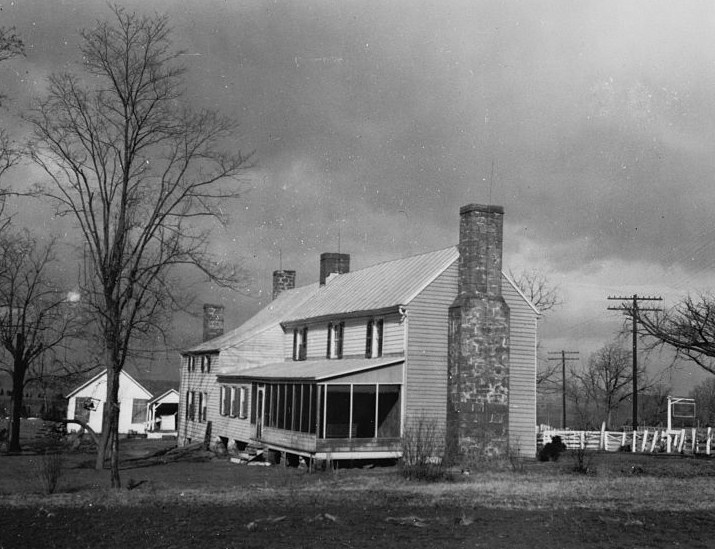 Old Tavern (Dranesville) , 11919 Leesburg Pike (moved from orig. location), Herndon vicinity (Fairfax, Virginia) cropped This file comes from the Historic American Buildings Survey (HABS), Historic American Engineering Record (HAER) or Historic American Landscapes Survey (HALS). These are programs of the National Park Service established for the purpose of documenting historic places. Records consist of measured drawings, archival photographs, and written reports. When reusing please credit: Library of Congress, Prints & Photographs Division, VA,30-DRANV,1-1 This tag does not indicate the copyright status of the attached work. A normal copyright tag is still required. See Commons:Licensing. This work is in the public domain in the United States because it is a work prepared by an officer or employee of the United States Government as part of that person’s official duties under the terms of Title 17, Chapter 1, Section 105 of the US Code. Note: This only applies to original works of the Federal Government and not to the work of any individual U.S. state, territory, commonwealth, county, municipality, or any other subdivision. This template also does not apply to postage stamp designs published by the United States Postal Service since 1978. (See § 313.6(C)(1) of Compendium of U.S. Copyright Office Practices). It also does not apply to certain US coins; see The US Mint Terms of Use. This file has been identified as being free of known restrictions under copyright law, including all related and neighboring rights.